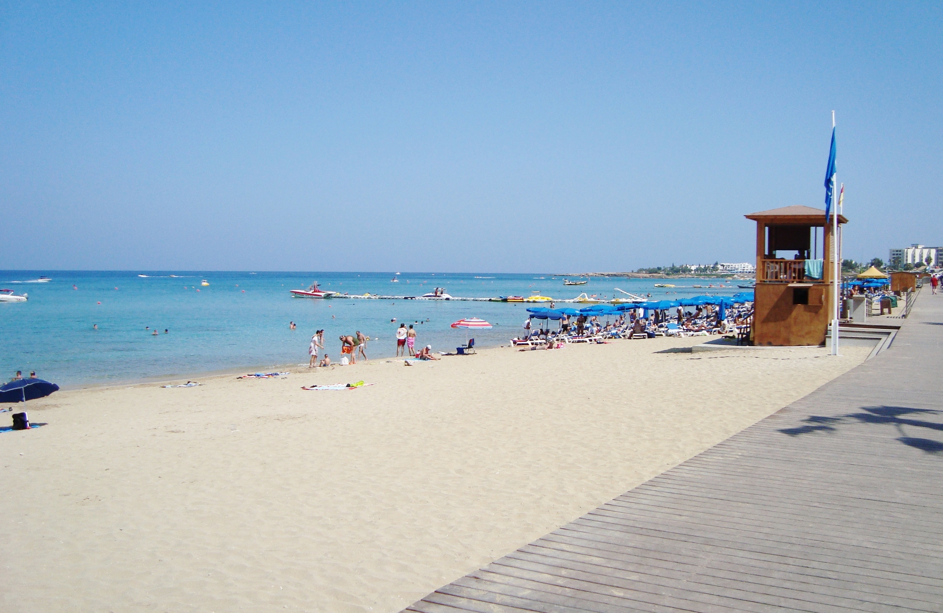 Lifeguard house in Protaras beach in Paralimni Republic of Cyprus